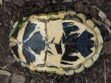 Cuora (pani) aurocapitata male by Torsten Blanck